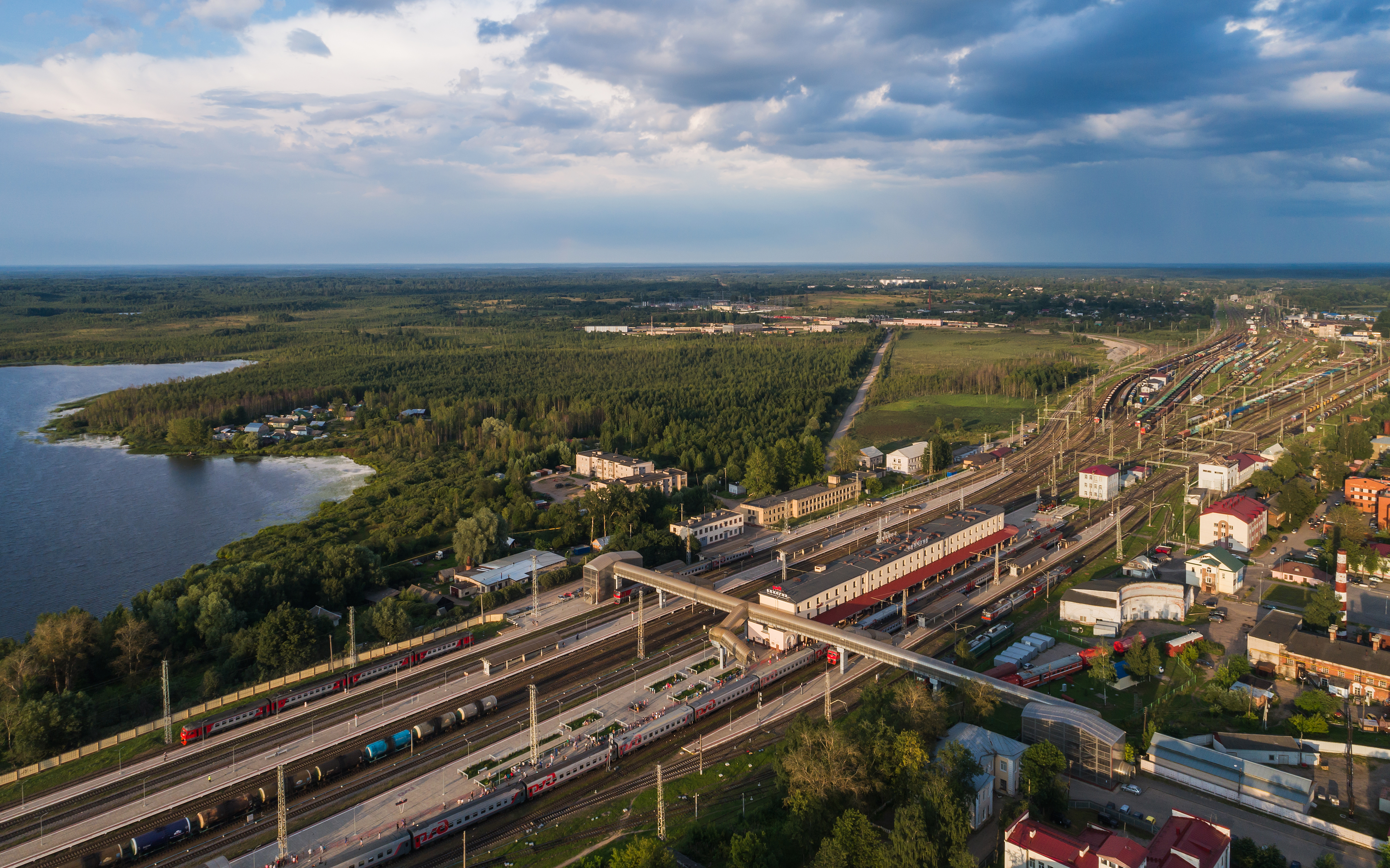 Aerial view of Bologoe-Moskovskoe (or Bologoe-1) railway station in Bologoe, Tver Oblast, Russia.